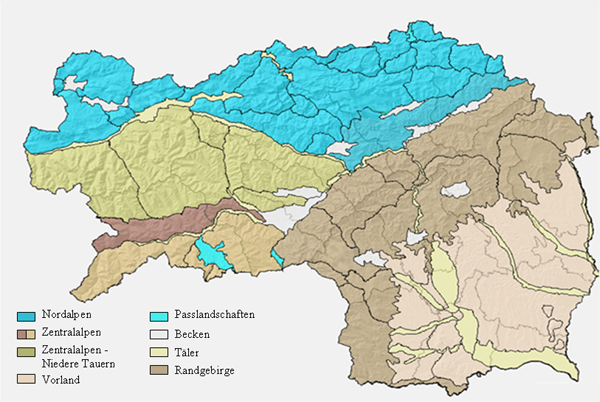 Approximate classification of the Styrian landscapes